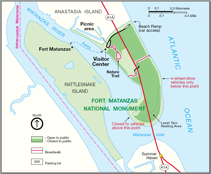 Map of Fort Mantanzas National Monument, Florida